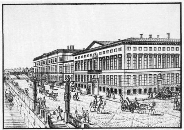 The Palace Embankment in Saint Petersburg, near Austrian Embassy.